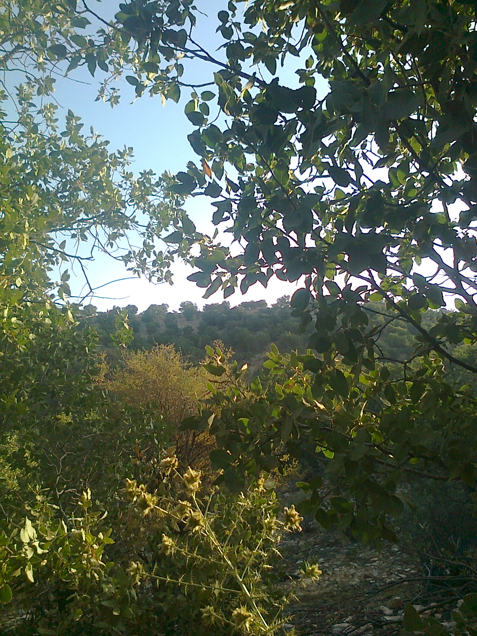 بان بن